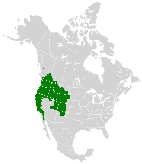 A range map showing the distribution of the Pale Swallowtail (Papilio eurymedon) in North America.